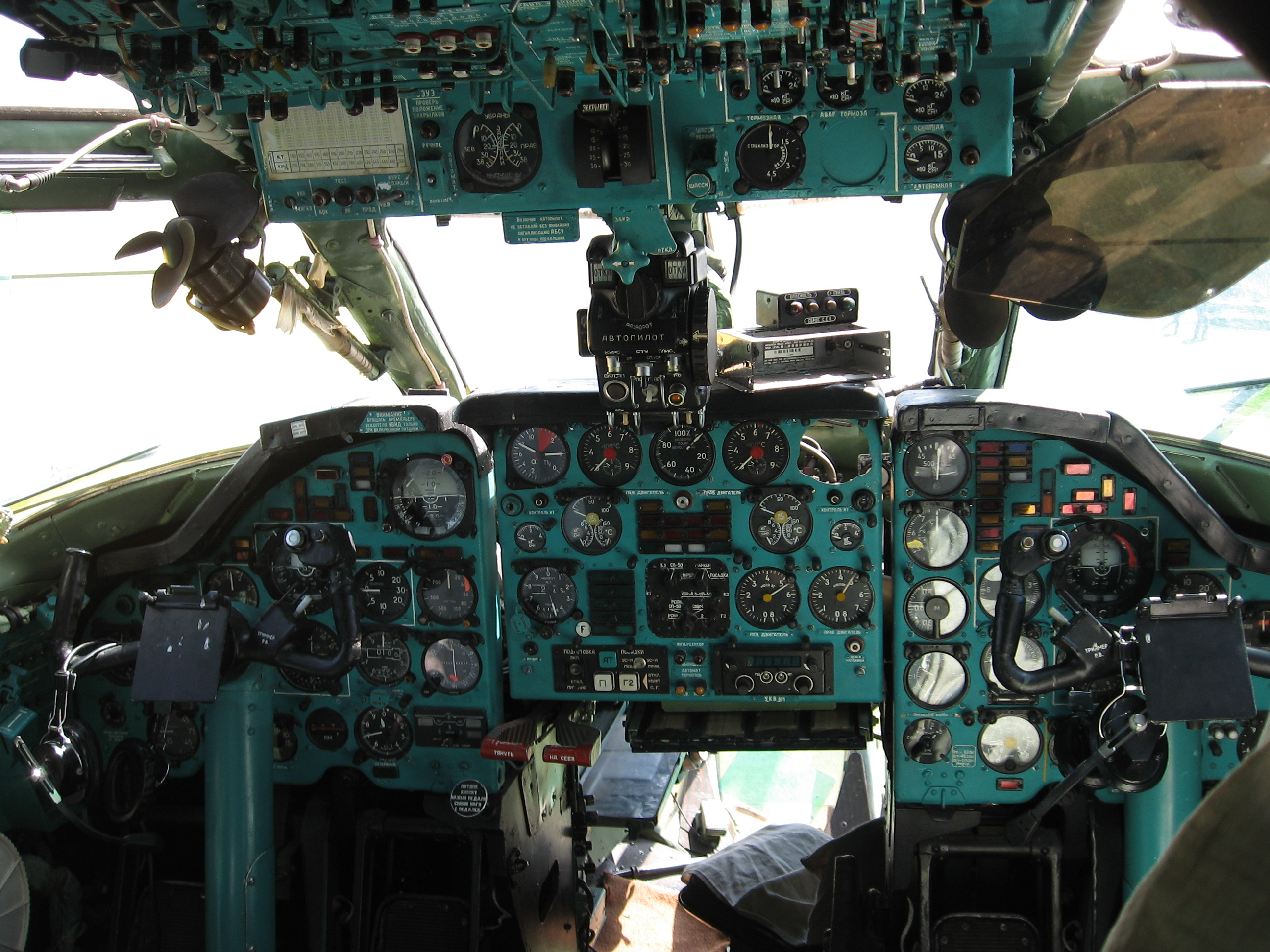 Cockpit of a TU-134a plane, formerly used by Estonian Air, now in the Estonian Aviation Museum